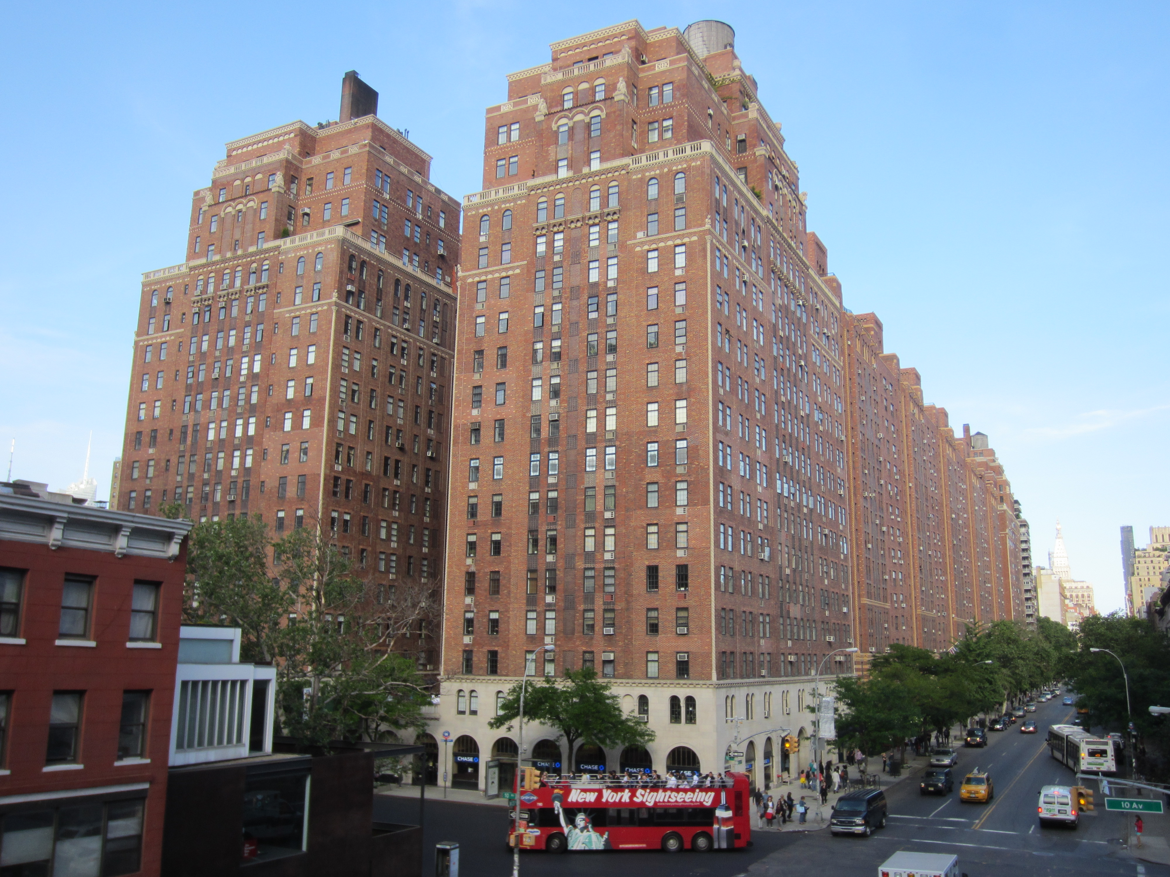 High Line, New York City in May 2014